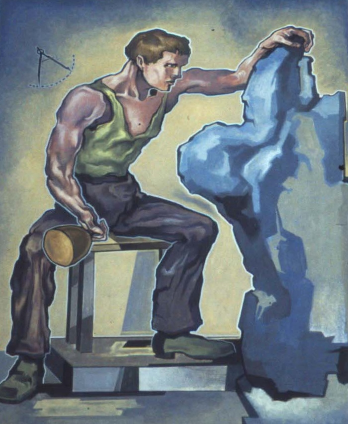 mural at File:CSFA .jpg